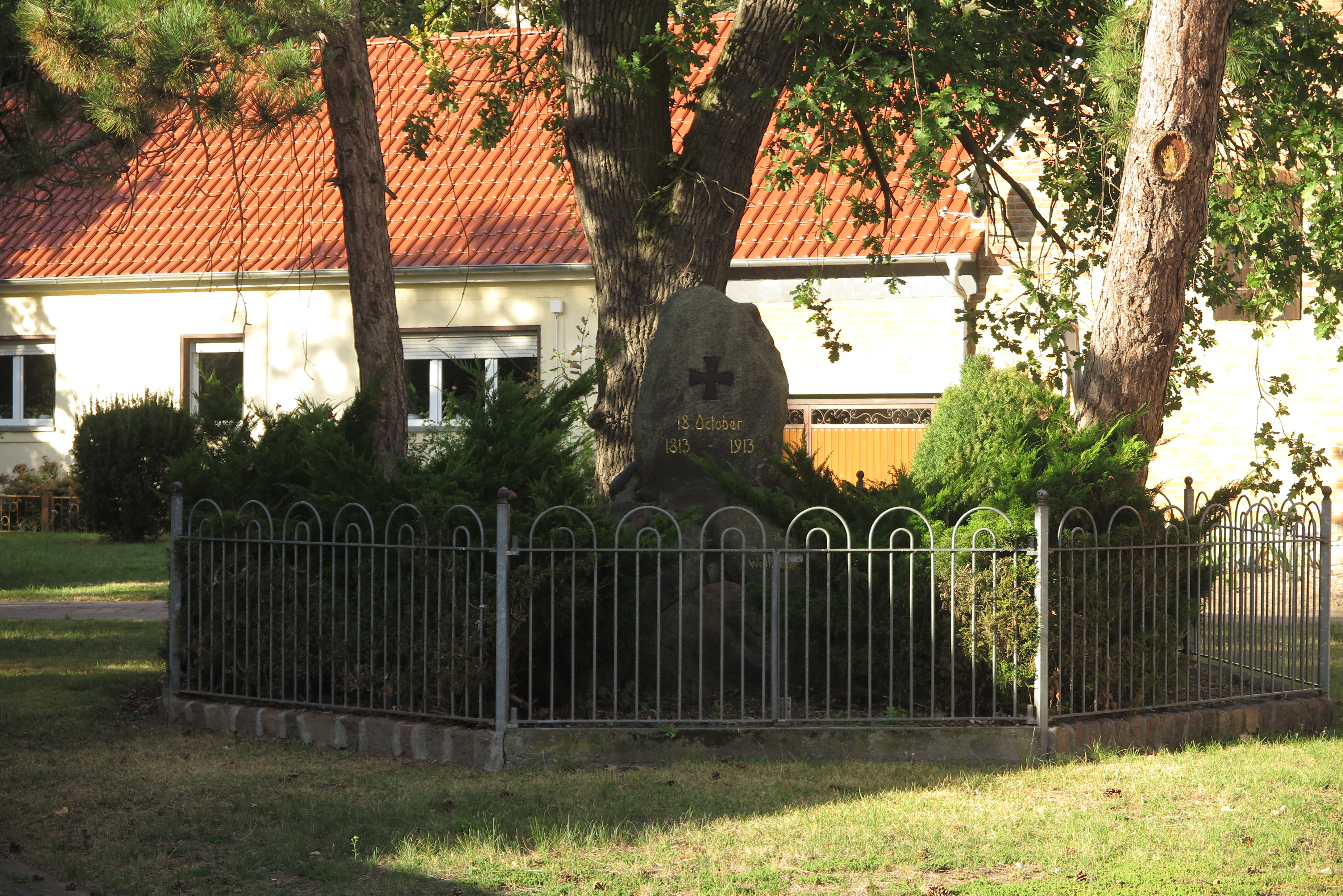 Monument for the Battle of Leipzig (in 1813) in Micheln (Osternienburger Land), erected in 1913